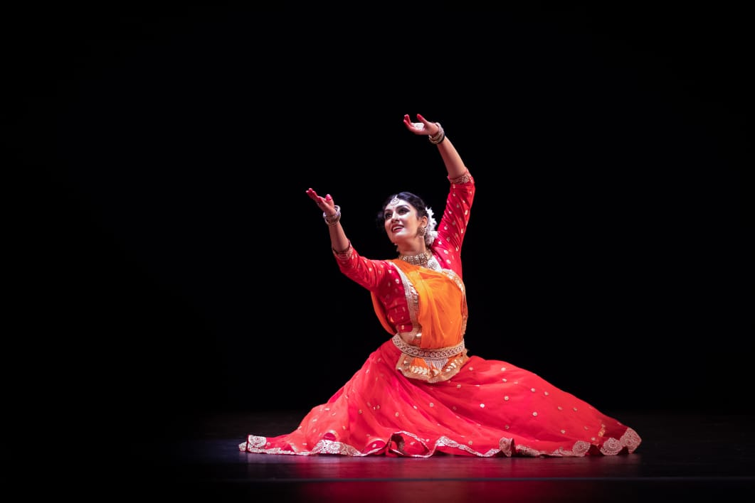 indian classical dance performance by shinjini kulkarni, kathak dancer, granddaughter of pt. birju maharaj ji of lucknow gharana, india in Palace of Fine Arts, San Francisco